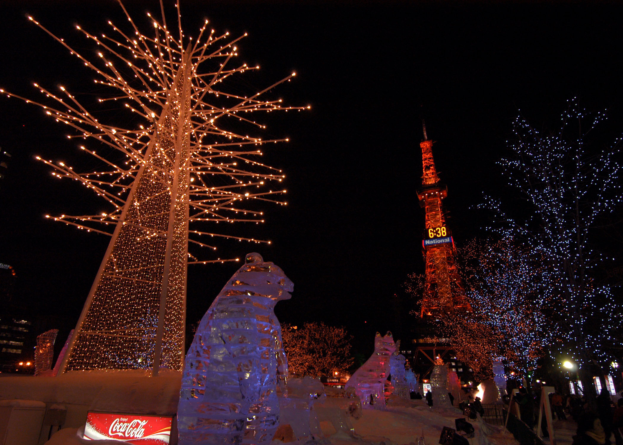 Sapporo, Japan (Feb. 9, 2006) - Illuminated trees and ice sculptures line the streets leading up to Sapporo's TV Tower during the Sapporo Ice Festival. These were just some of the many spectacular ice and snow sculptures Sailors and Marines stationed aboard the amphibious command ship USS Blue Ridge (LCC 19) had a chance to see during the ship's four-day visit to Japan. Blue Ridge and the embarked 7th Fleet staff deployed in January, to complete routine port visits and community relations projects throughout the 7th Fleet area of operation (AOR). U.S. Navy photo by Journalist Seaman Marc Rockwell-Pate (RELEASED)